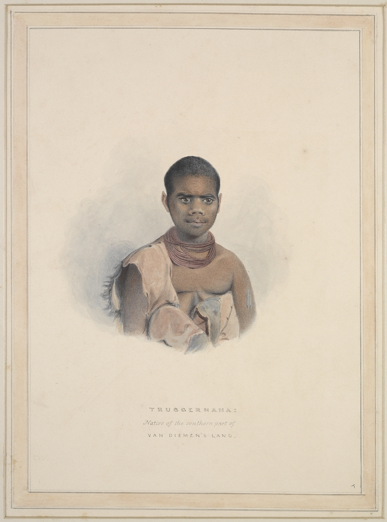 Truggernana: Native of the southern part of Van Diemen's Land, Thomas Bock. This portrait was formerly believed to be Truganini, but has been reidentified as Wutapuwitja, also known as Wortabowigee.[1]